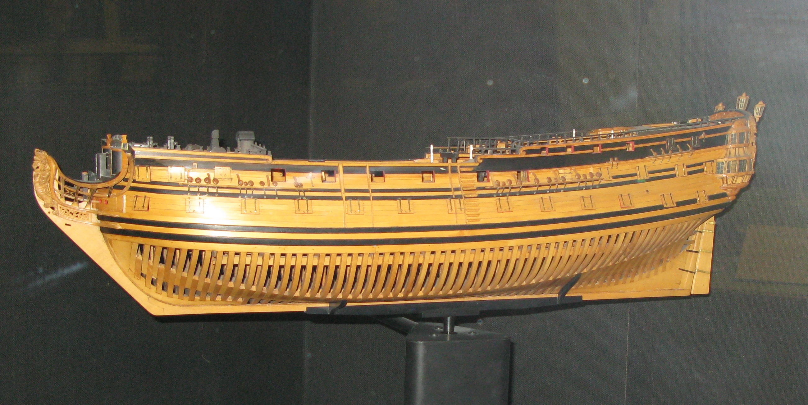 Photo of a model of the hull of HMS_Captain (1678) after her 1708 rebuild. the model was made by a Mr William hammond probably shortly after 1714